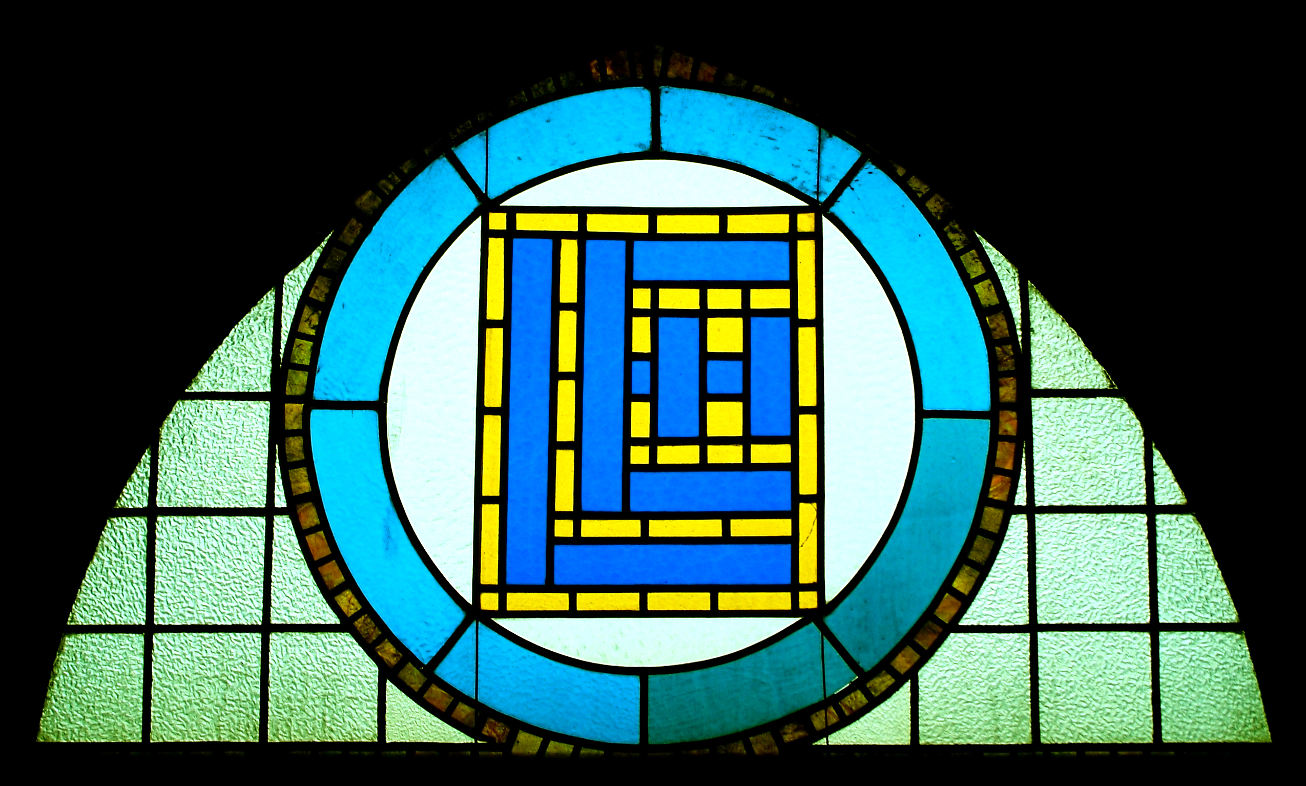 Thanks to all my friends and helpers